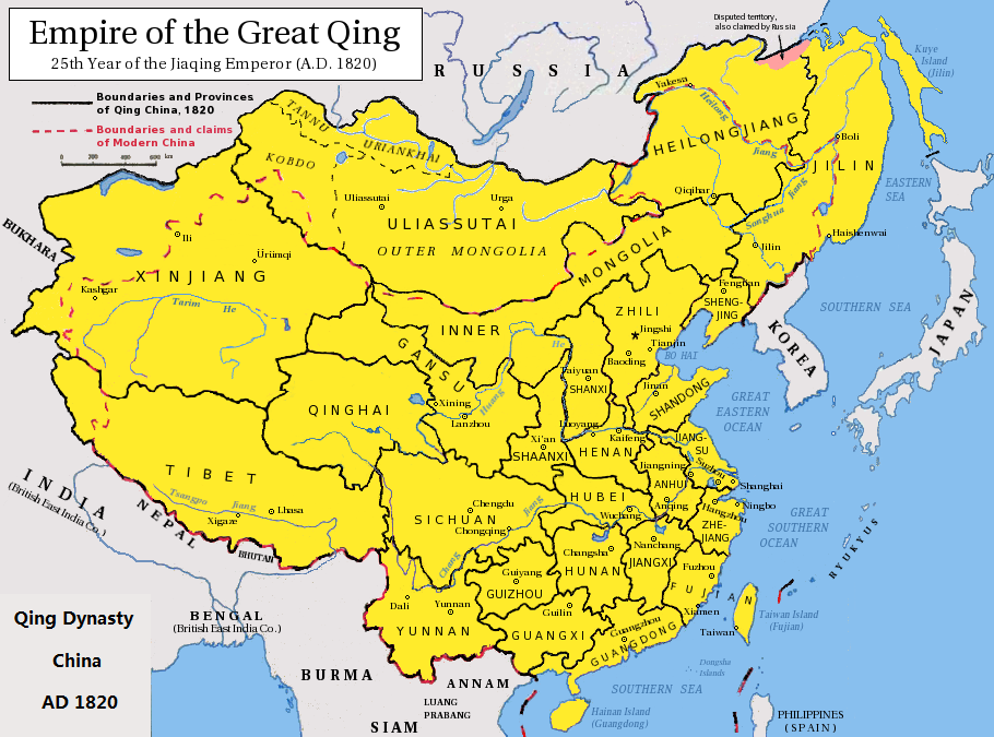 Map of the Qing Dynasty China in 1820. (Includes provincial boundaries and the boundaries of modern China for reference.)Adapted from and information complied from other sources such as , and